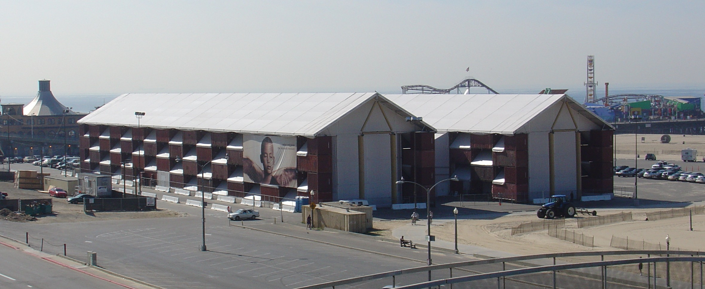 Photograph of the Nomadic Museum, housing the "Ashes and Snow" photo exhibit. Santa Monica, March 2006, next to the Santa Monica Pier. I took this photo. Copyright (C)2006. I hereby license this photo under the GFDL.